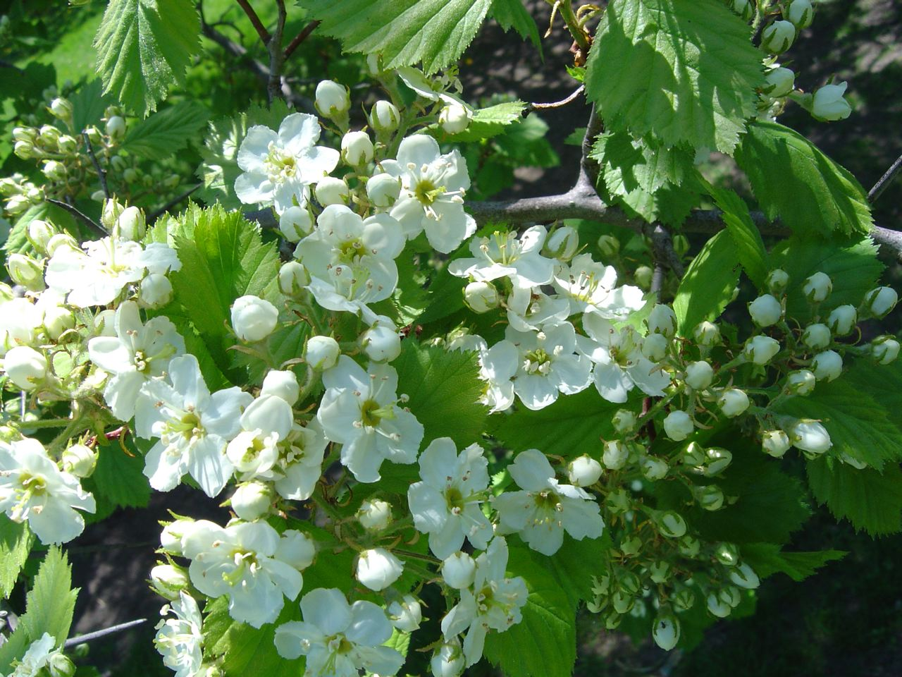 Crataegus submollis flowers, Ashbridge's Bay Park, Toronto, Canada